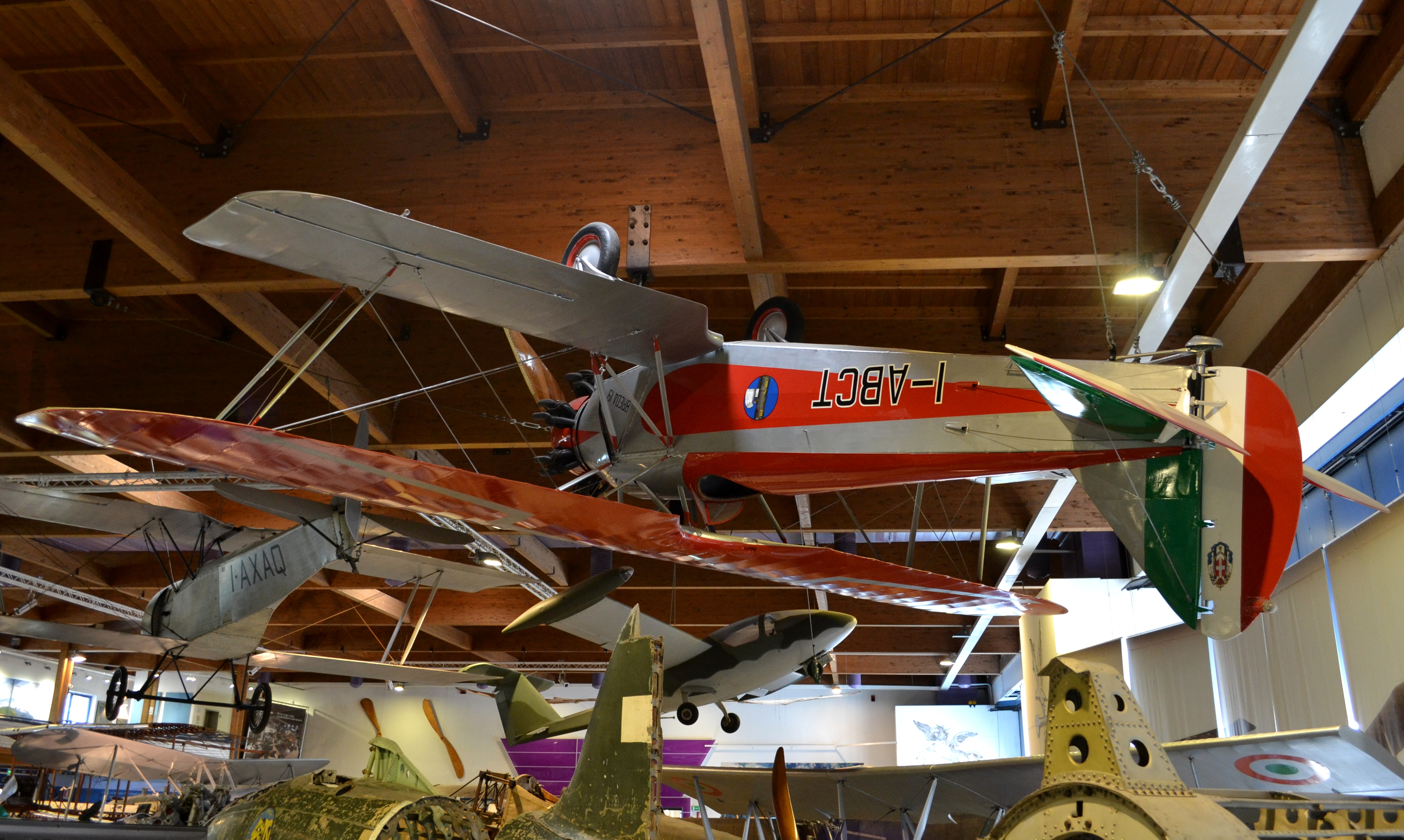 Breda Ba.19 Italian aerobatic and training biplane from the 1930s. Original aircraft on display at the Gianni Caproni Museum of Aeronautics in Trento, Italy.